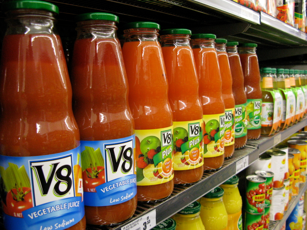 V8 vegetable juice